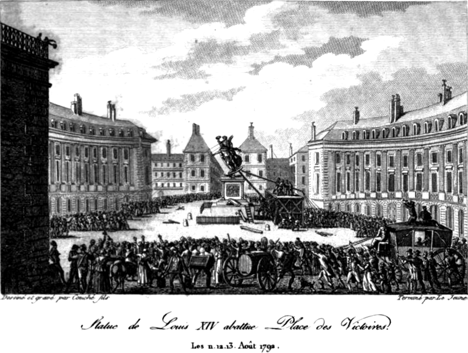 The Toppling of Louis XIV's Statue in the Place des Victoires on 11, 12, 13 August 1792